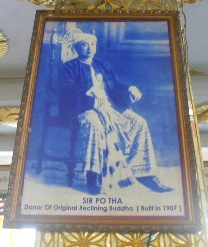 SIR PO THA is the donor of original reclining Buddha (built in 1907)